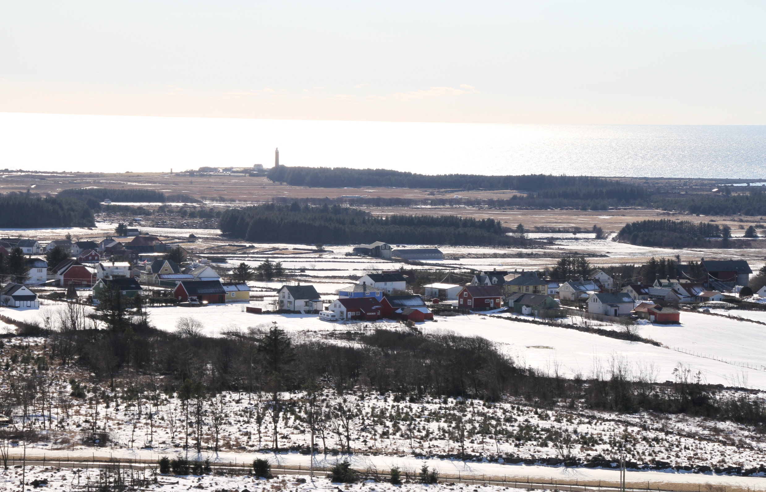 Image of motif from the western end of the Lista peninsula, Farsund municipality (Vest-Agder, Norway).